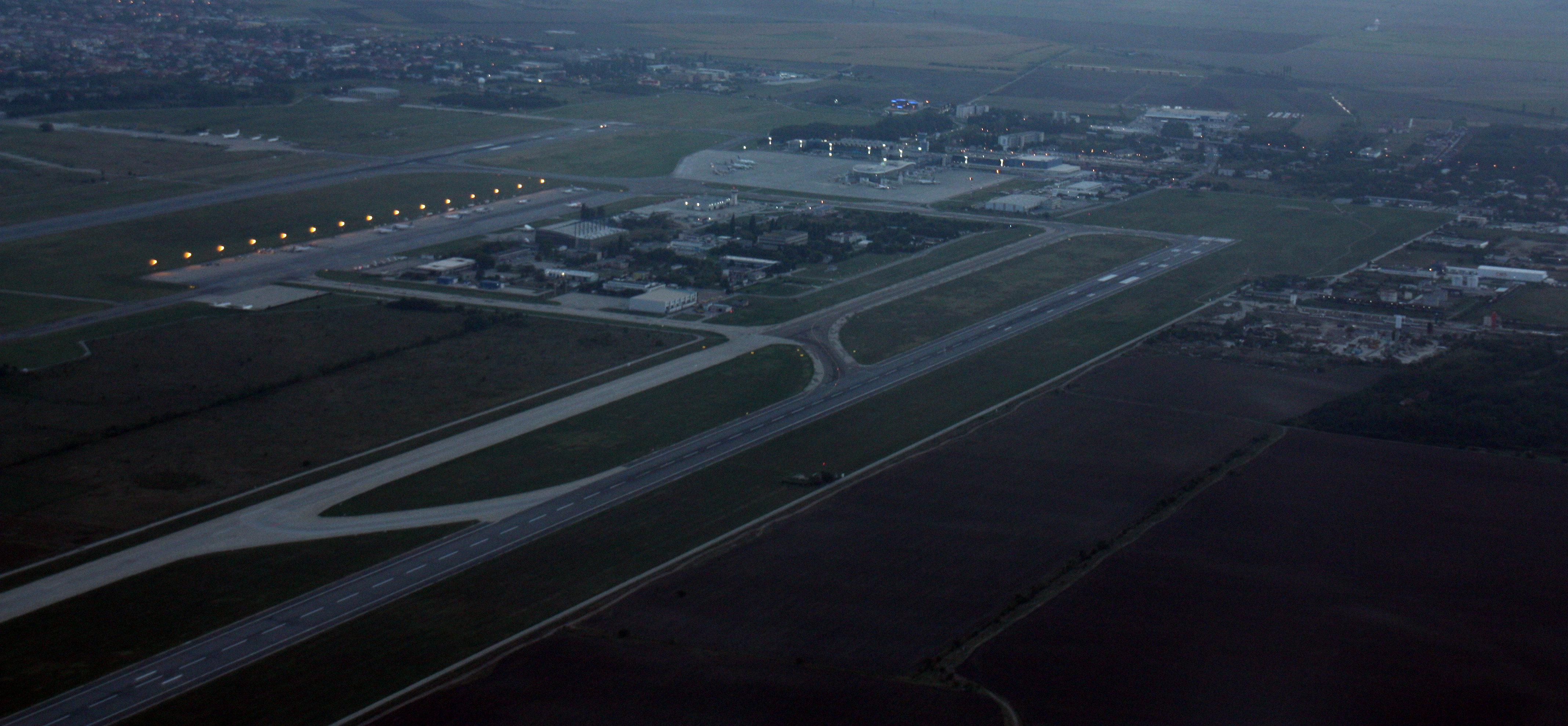 Aerial view of Henri-Coanda airport in Bucharest, Romania.